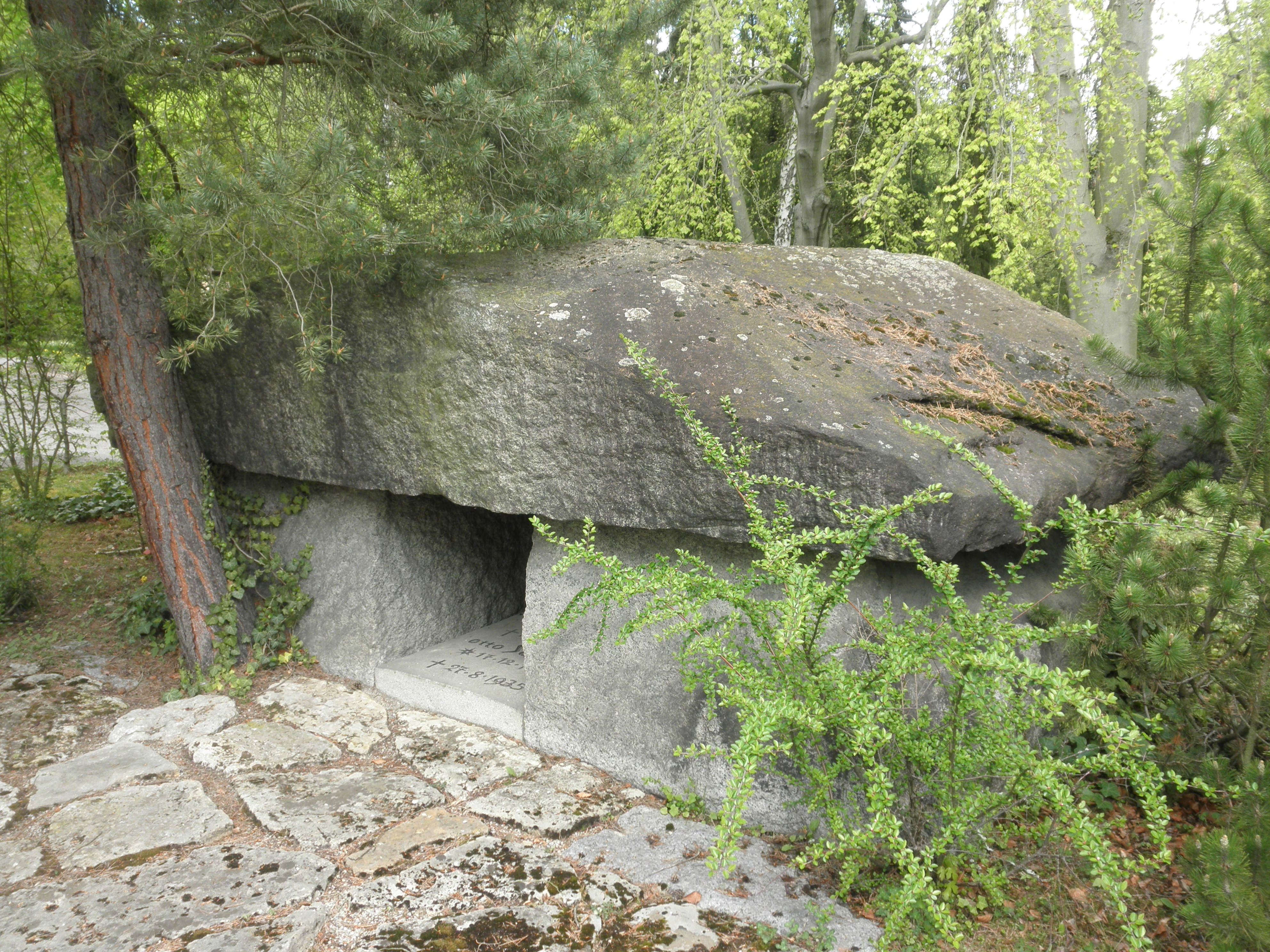 Tomb of Otto Schott in Cemetery in Jena in Thuringia